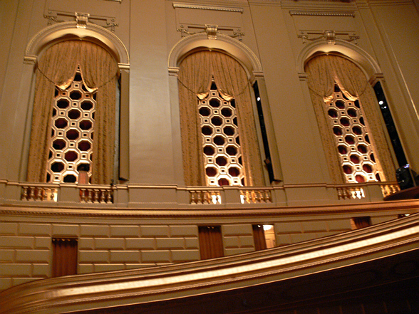 War Memorial Opera House, San Francisco, California, USA